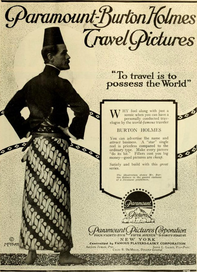 Advertisement in Moving Picture World, Aug 1917